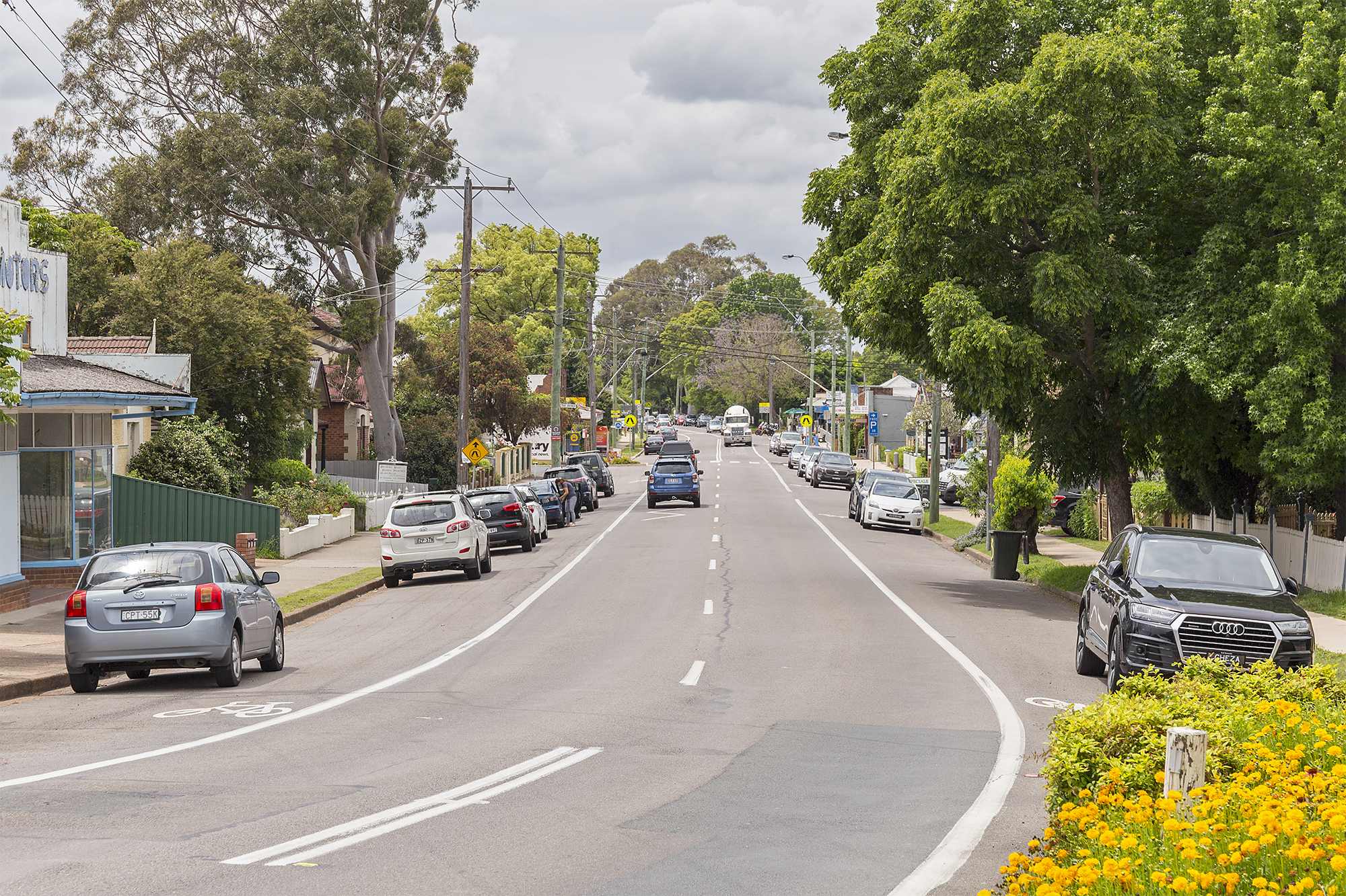 Looking down Belmore Road in Lorn.